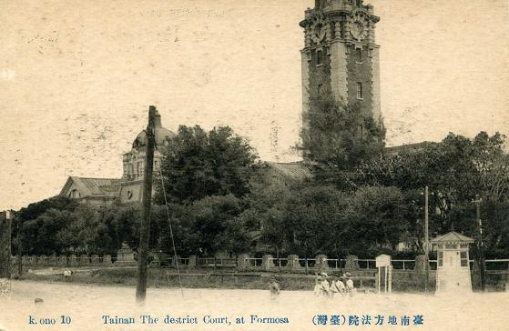 Tainan The district court